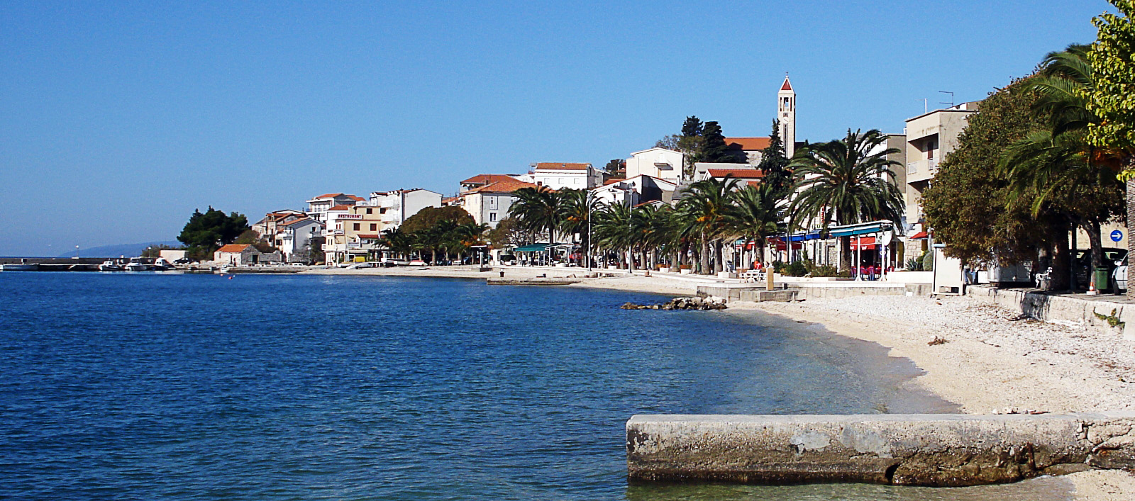 Gradac, a municipality in Croatia.